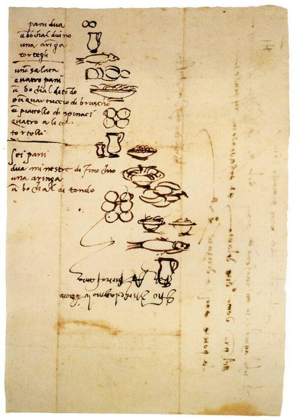 Grocery list by Michelangelo for an illiterate servant